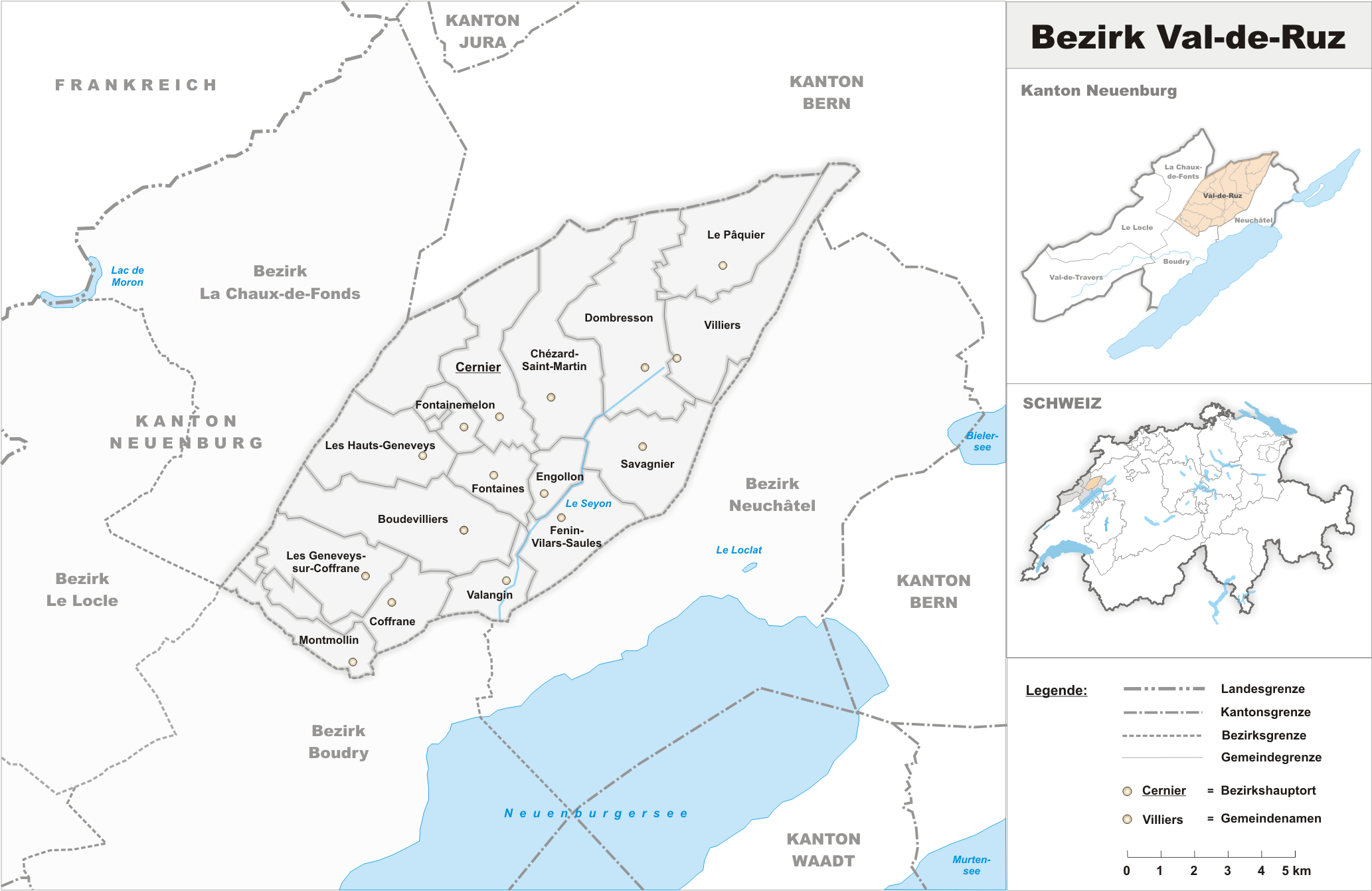 Municipalities in the district of Val-de-Ruz